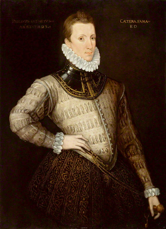 Posthumous portrait of Sir Philip Sidney, possibly by Hieronimo Custodis, after an original attributed to Cornelis Ketel, 1578, at Longleat House. See Strong, 1990.